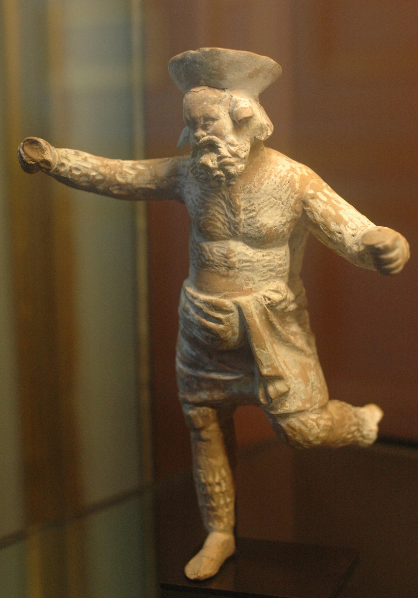 Theatrical type: a satyr. Papposilenus playing the crotales. Terracotta from Boeotia (Tanagra?).